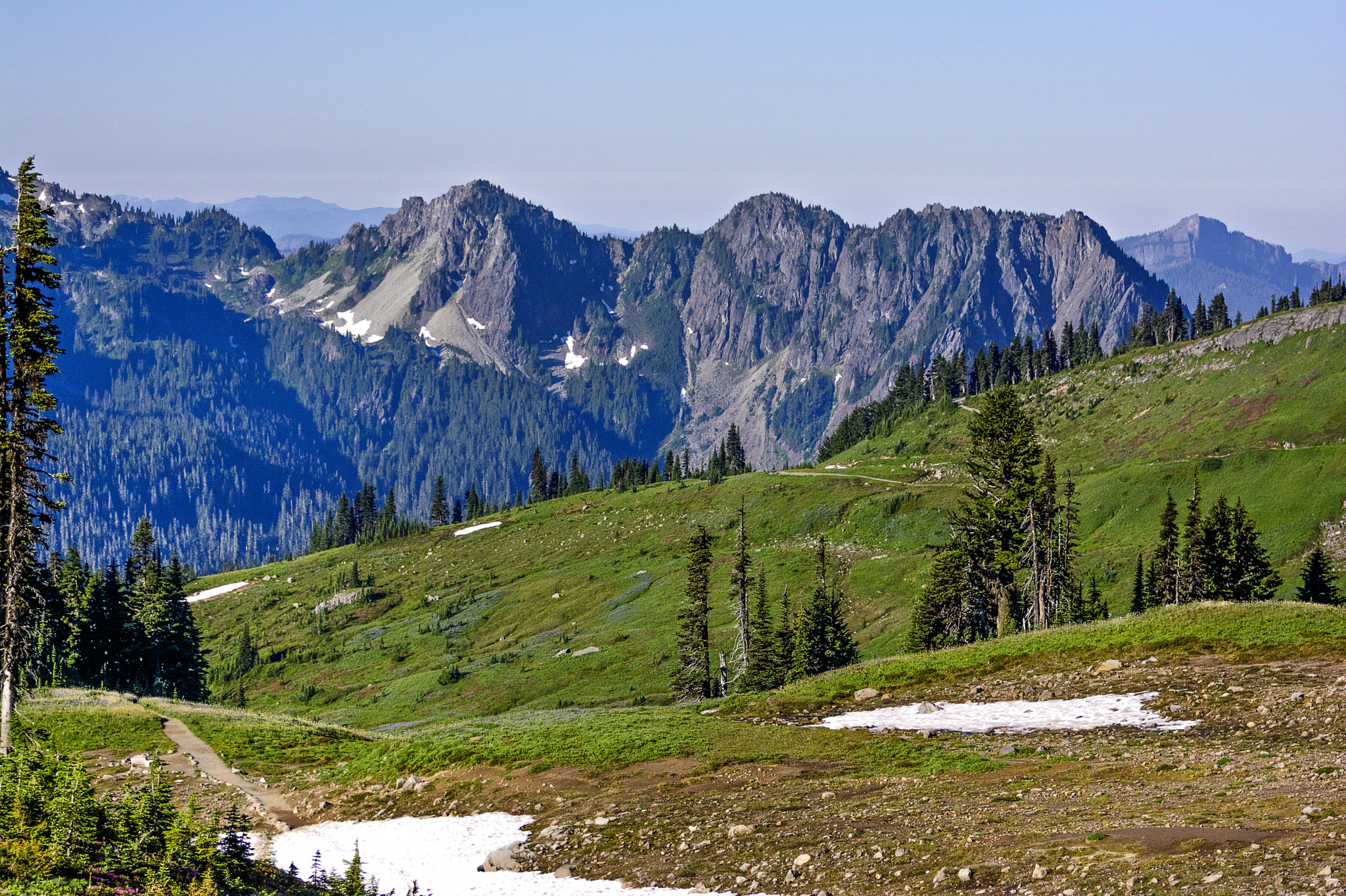 500px provided description: Alpine Meadow in Mt. Rainier National Park [#Mountains ,#Alpine ,#Meadow ,#Mt. Rainier National Park]